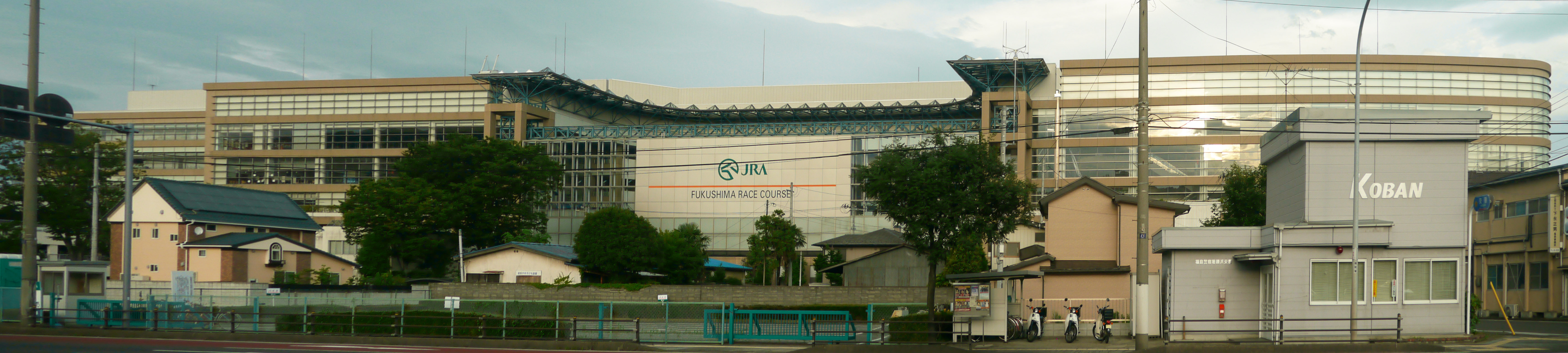 The Fukushima Racecourse in Fukushima, Fukushima, Japan viewed from the front, showing the full front of the main building